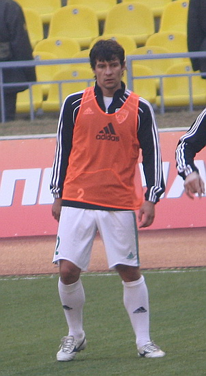 Sergey Omelyanchuk